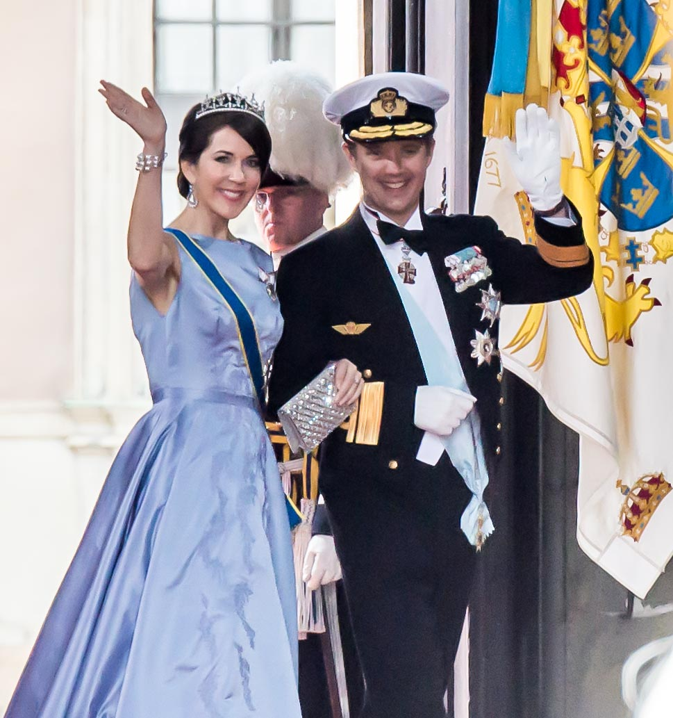 Frederik, Crown Prince of Denmark and Mary, Crown Princess of Denmark in Stockholm June 13, 2015.